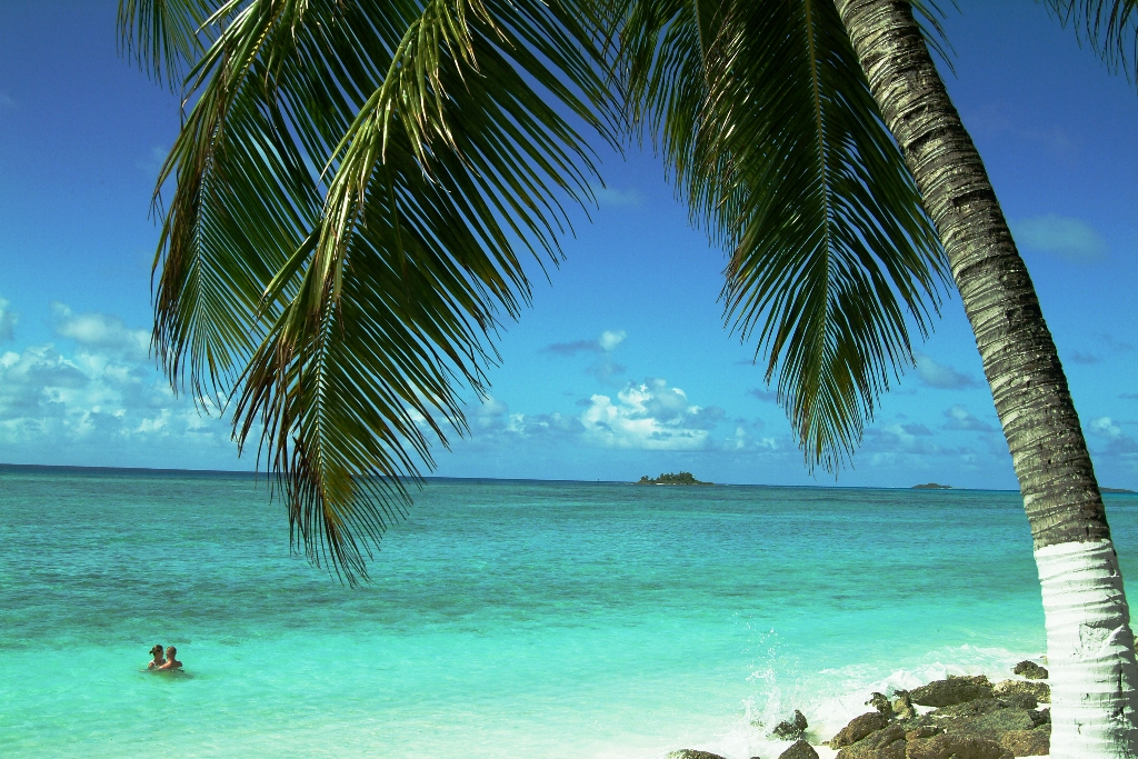 USAF photographer's photo